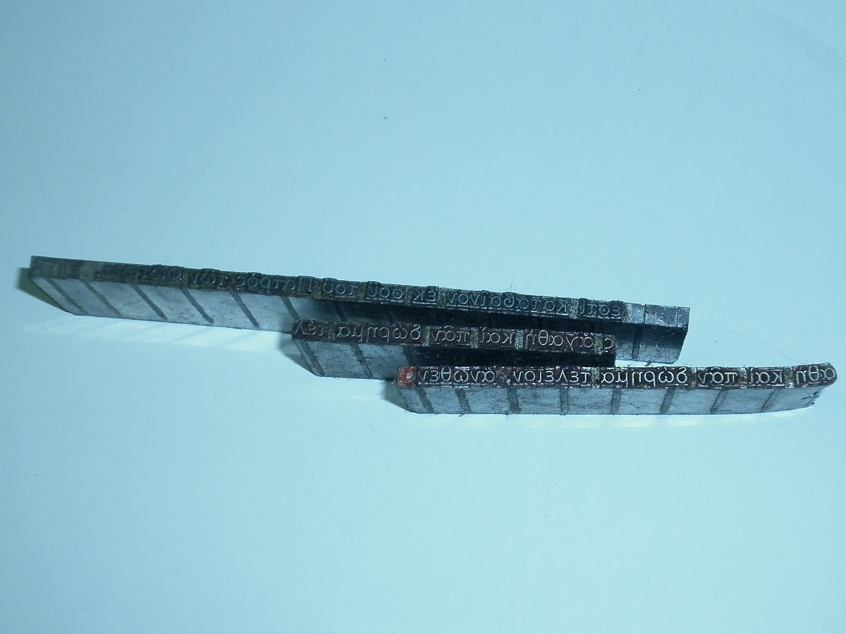 Three linotype slugs with Greek text: «[πᾶσα δόσι]ς ἀγαθὴ καὶ πᾶν δώρημα τέλειον…», from Saint John Chrysostom's Divine Liturgy. Typeset with Nebiolo Ellade at 10 points.